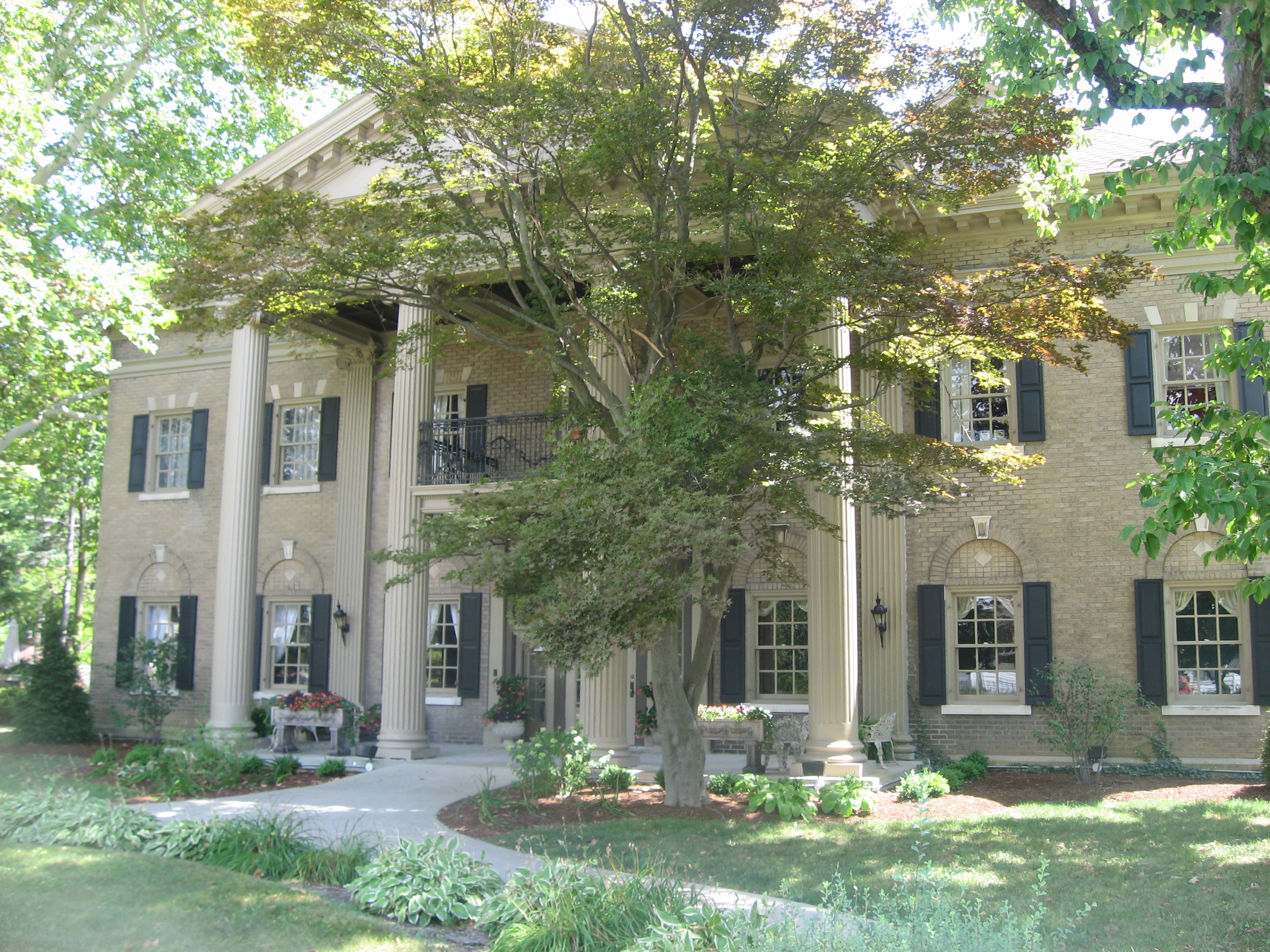 Front of the J. Woodrow Wilson House, located at 215 E. Third Street in Marion, Indiana, United States. Built in 1912 according to a Samuel Plato design, it is listed on the National Register of Historic Places, and it is part of a locally designated historic district, the Westside Historic District.